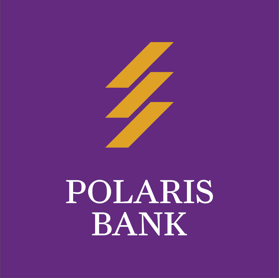 The Official Polaris Bank Logo